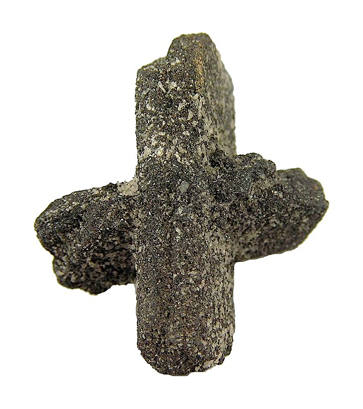 Cassiterite, Orthoclase Locality: Wheal Carpenter, Fraddam, Gwinear, St Erth - Gwithian Area, Cornwall, England, UK (Locality at ) Size: thumbnail, 2.6 x 2.2 x 1.3 cm Cassiterite pseudo. after Orthoclase This oddity clearly demonstrates the original, twinned, orthoclase crystals which have been totally replaced by dark gray, cassiterite, the primary ore of tin. Very rare and unusual 1800's classic !